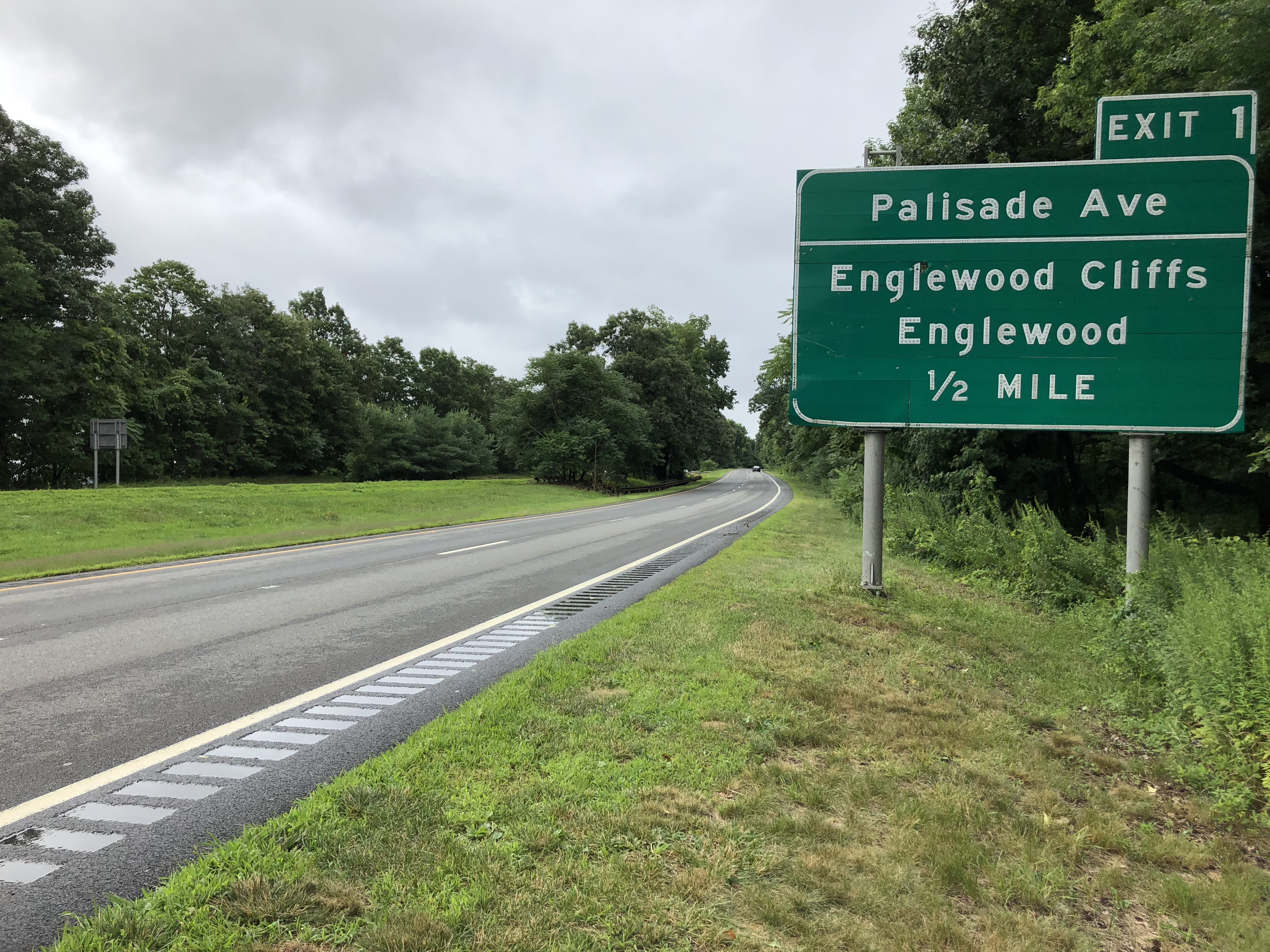 View south along New Jersey State Route 445 (Palisades Interstate Parkway) just north of Exit 1 (Palisade Avenue, Englewood Cliffs, Englewood) in Englewood Cliffs, Bergen County, New Jersey